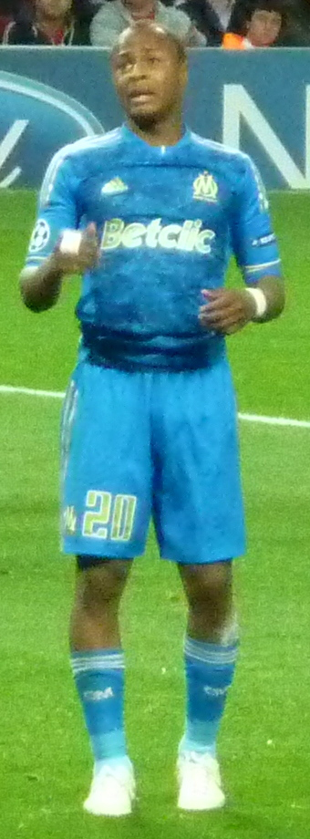 André Ayew during a match between Arsenal and Marseille in Champions League 2011/12 group stage.